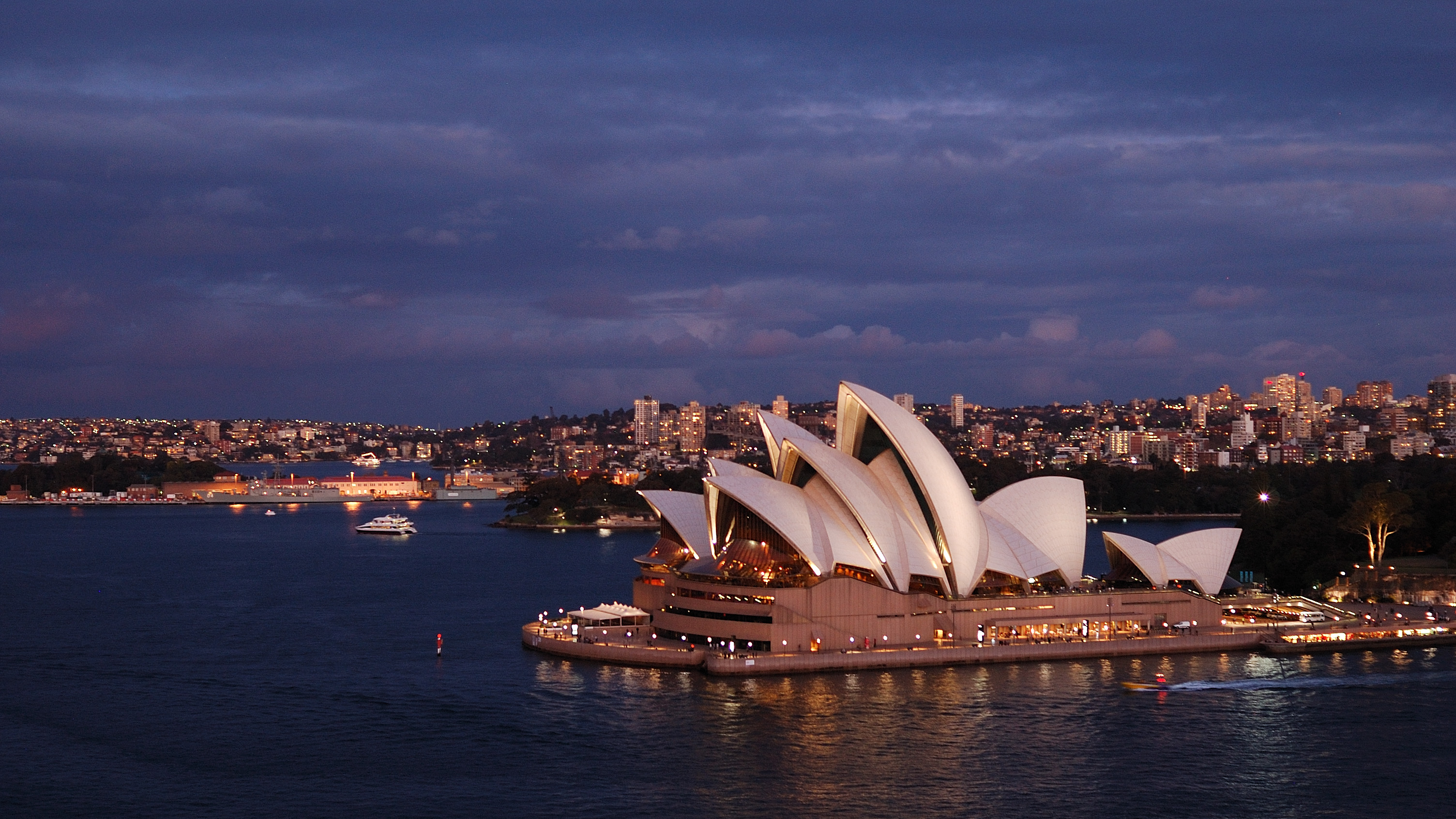 The Sydney Opera House at dusk